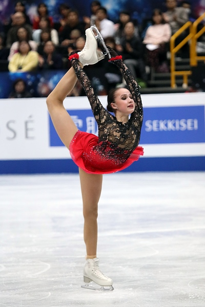 Alina Zagitova at the World Championships 2019 - Free program